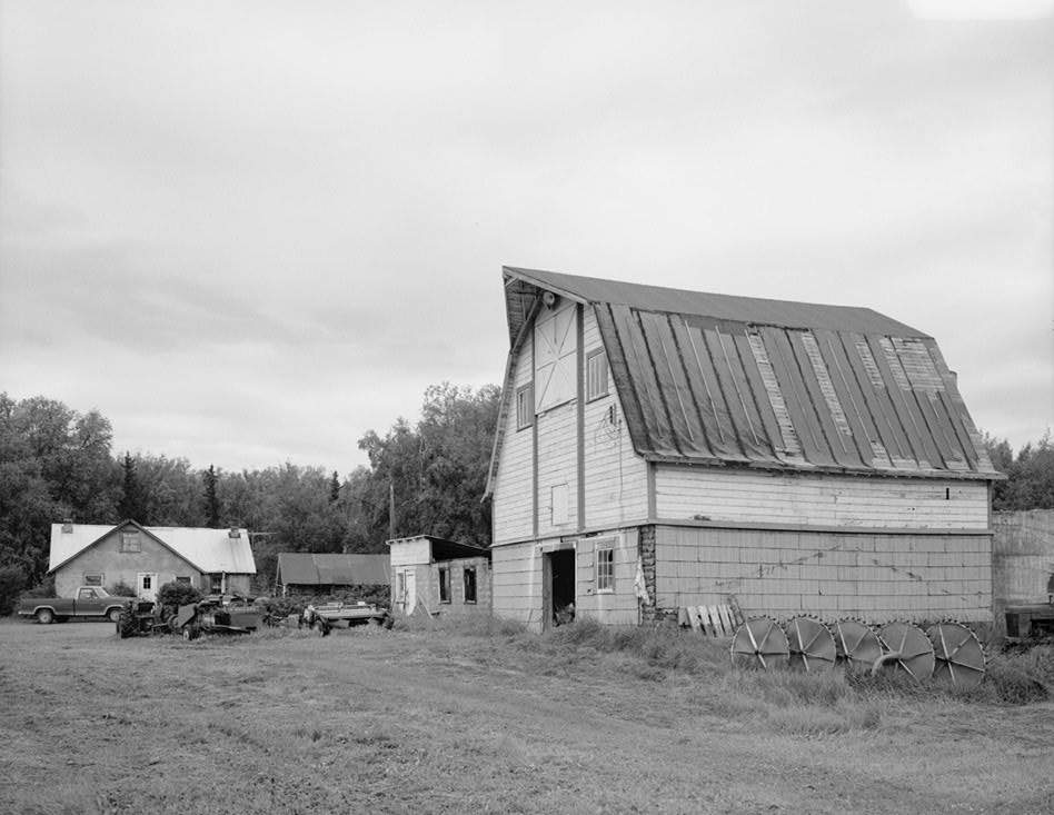 Southern view of the Raymond Rebarchek Colony Farm, a farm located along the Glenn Highway south of the city of Palmer in the Matanuska-Susitna Borough of the U.S. state of Alaska. Built in 1935, the farm was added to the National Register of Historic Places on 3 October 1978.